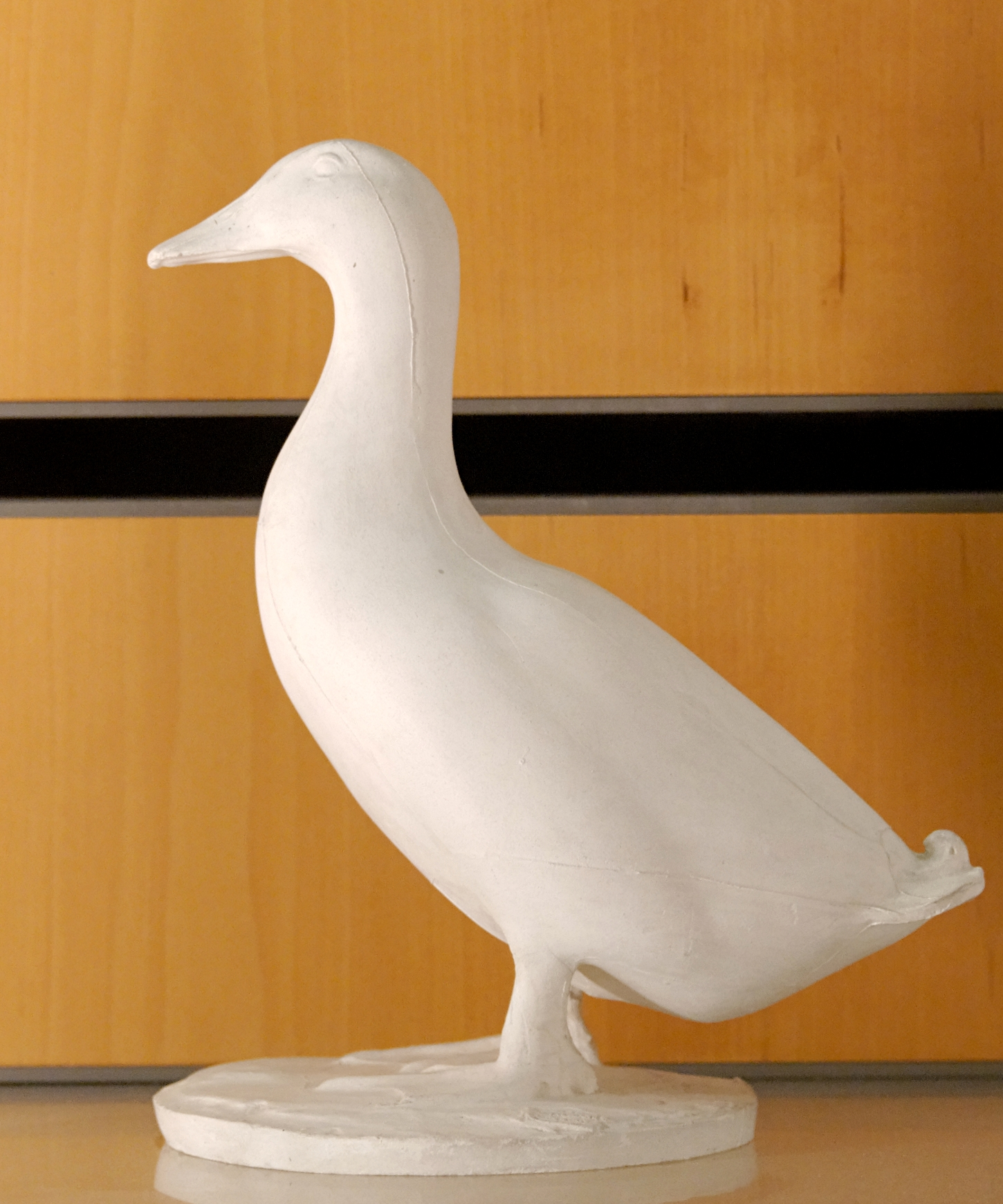 Duck.